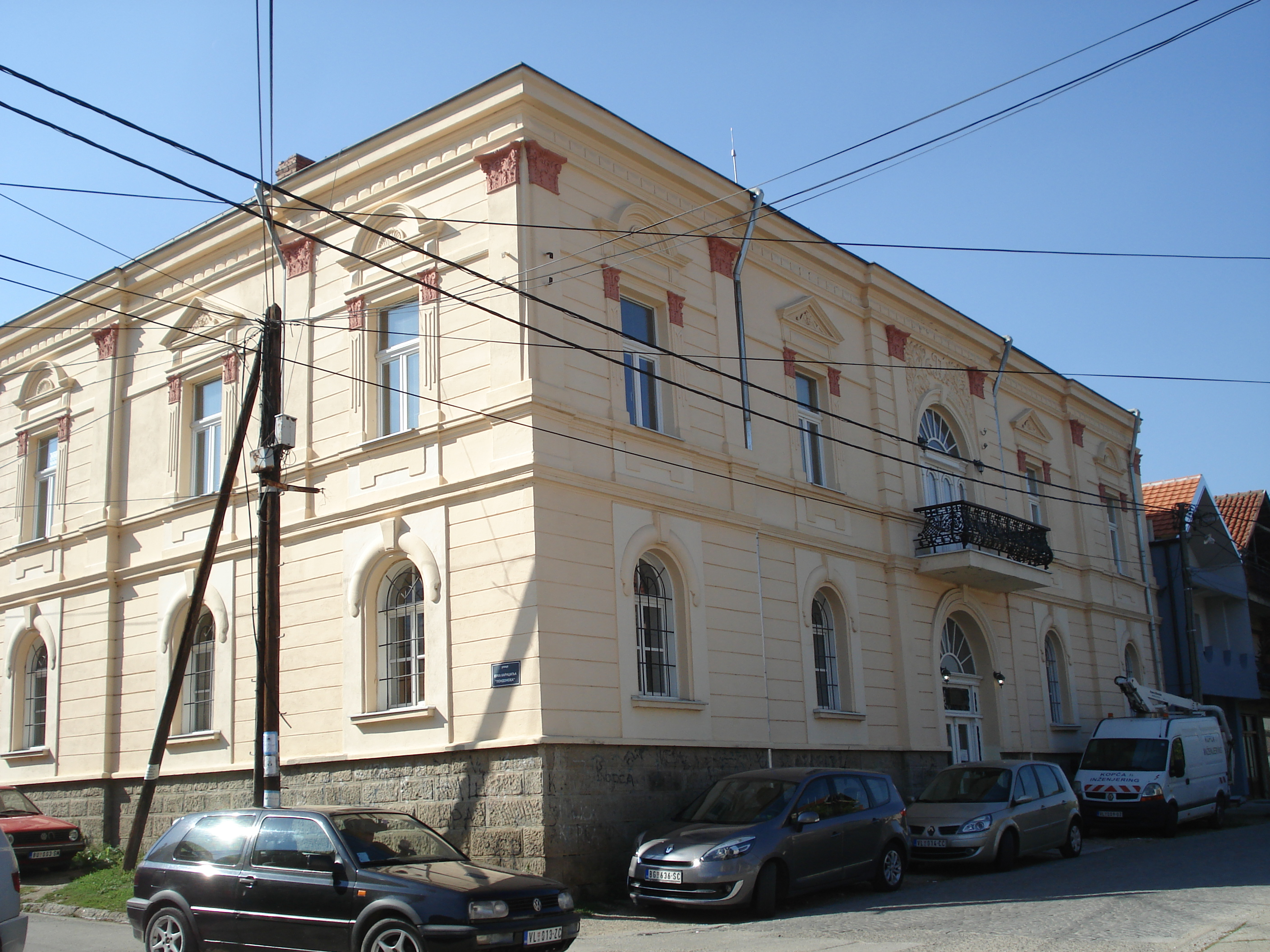 Zgrada internata, novembar 2017.